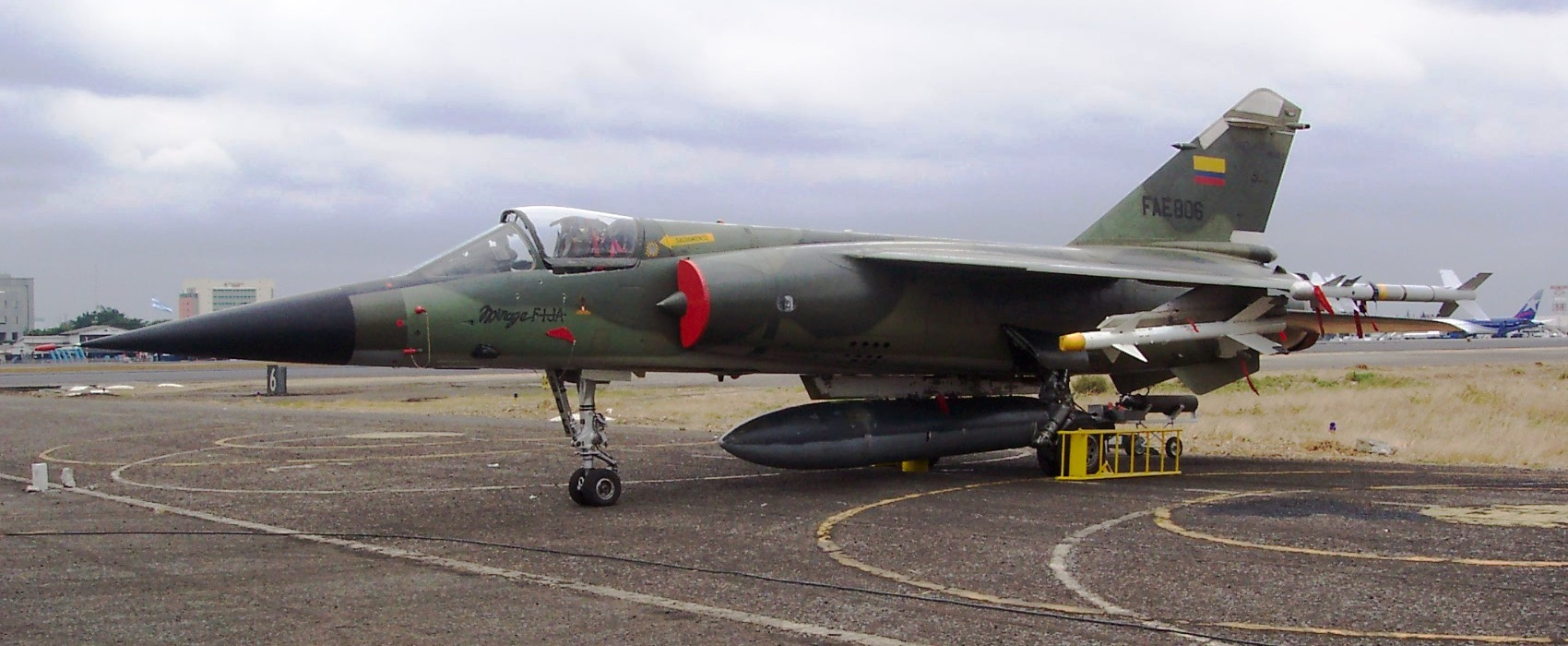 Ecuadorian Air Force Mirage F.1JA FAE-806, shown here with a Rafael Python 3 AAM, a Matra Magic 2 AAM, and an external fuel tank. The killmarking represents the Peruvian Air Force Sukhoi Su-22M shot down by this aircraft on Feb/10/1995 during the Cenepa War.